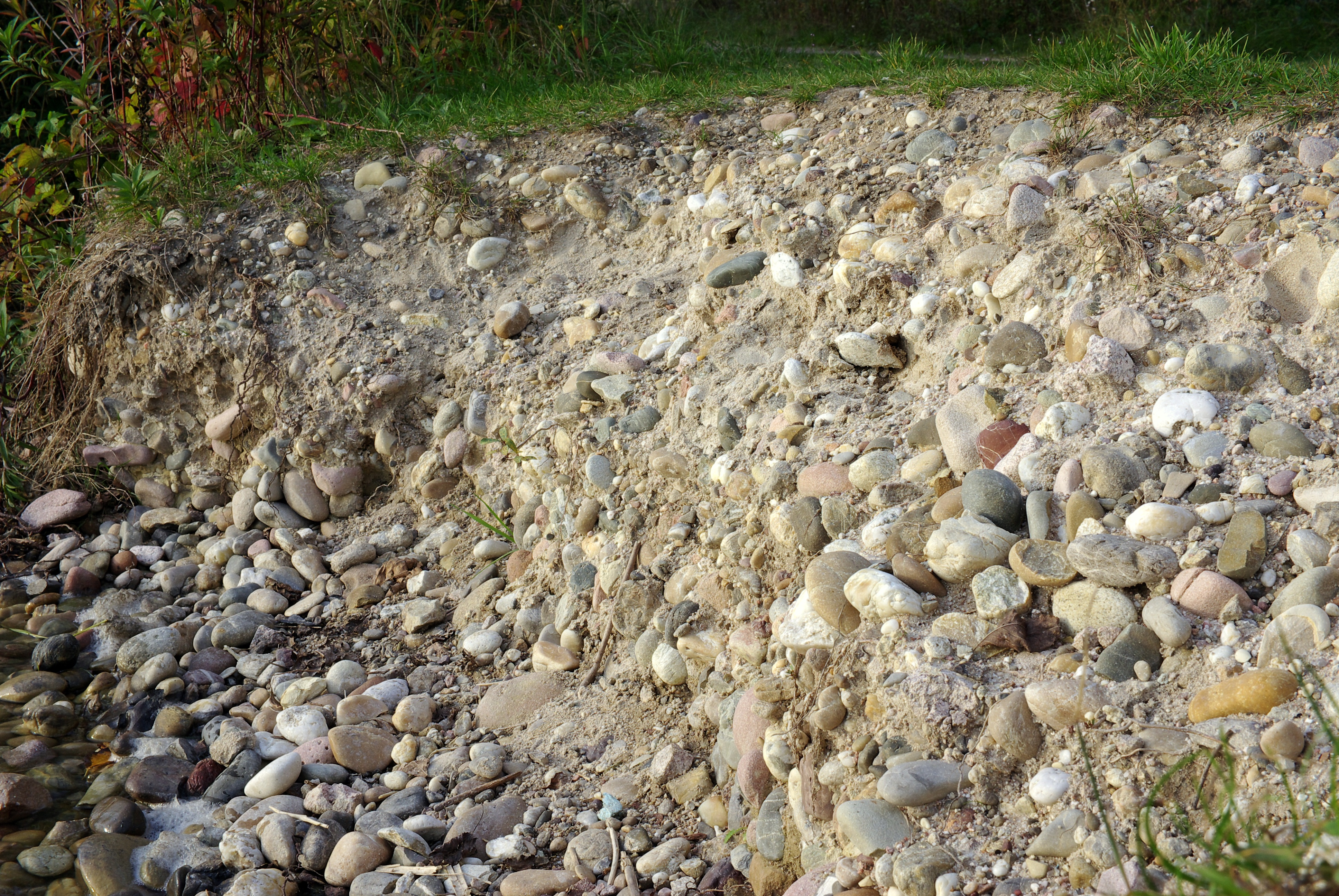 The bankside of Schertle-See, a gravel pit near Rastatt.